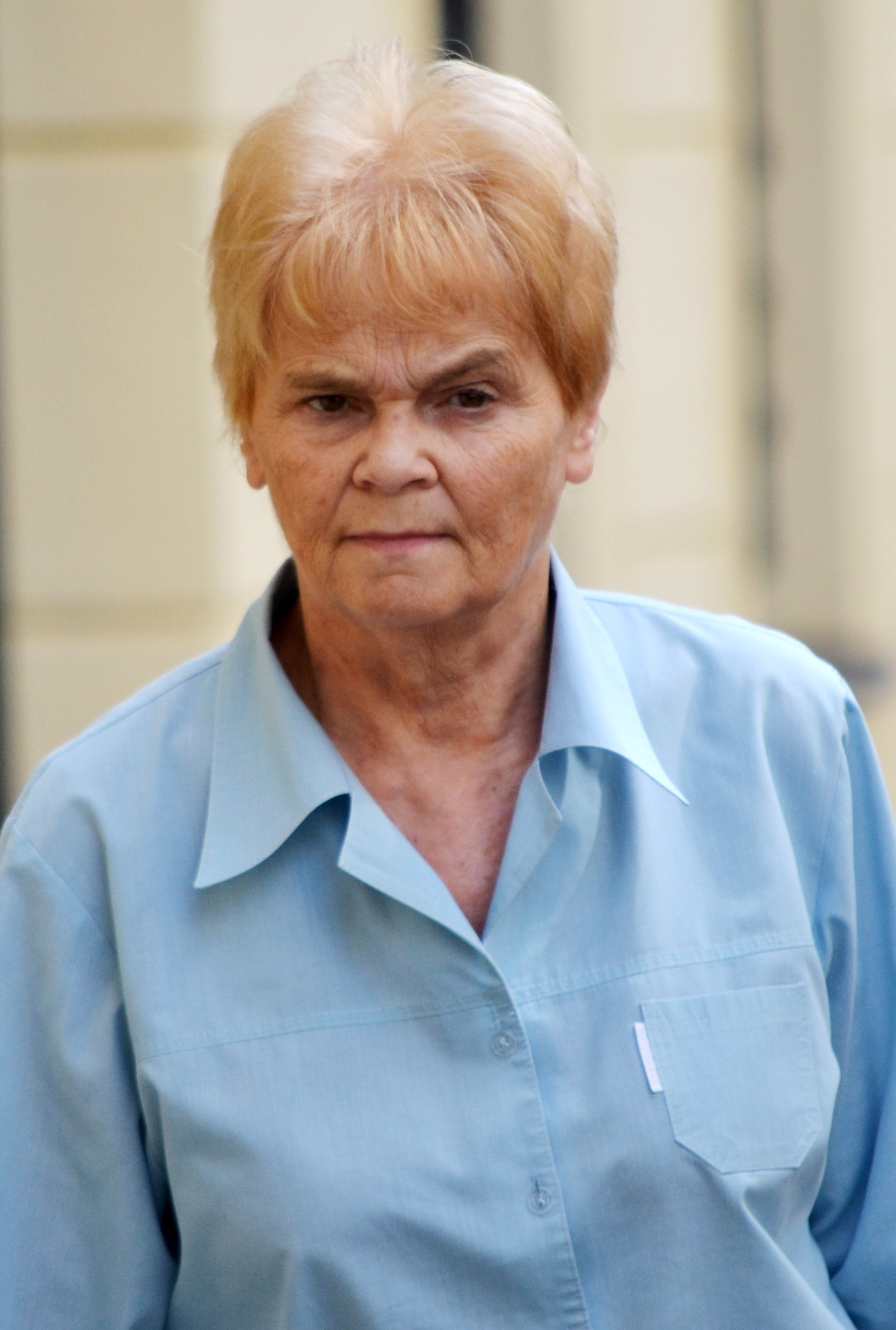 Hana Orgoníková, Member of the Czech Parliament